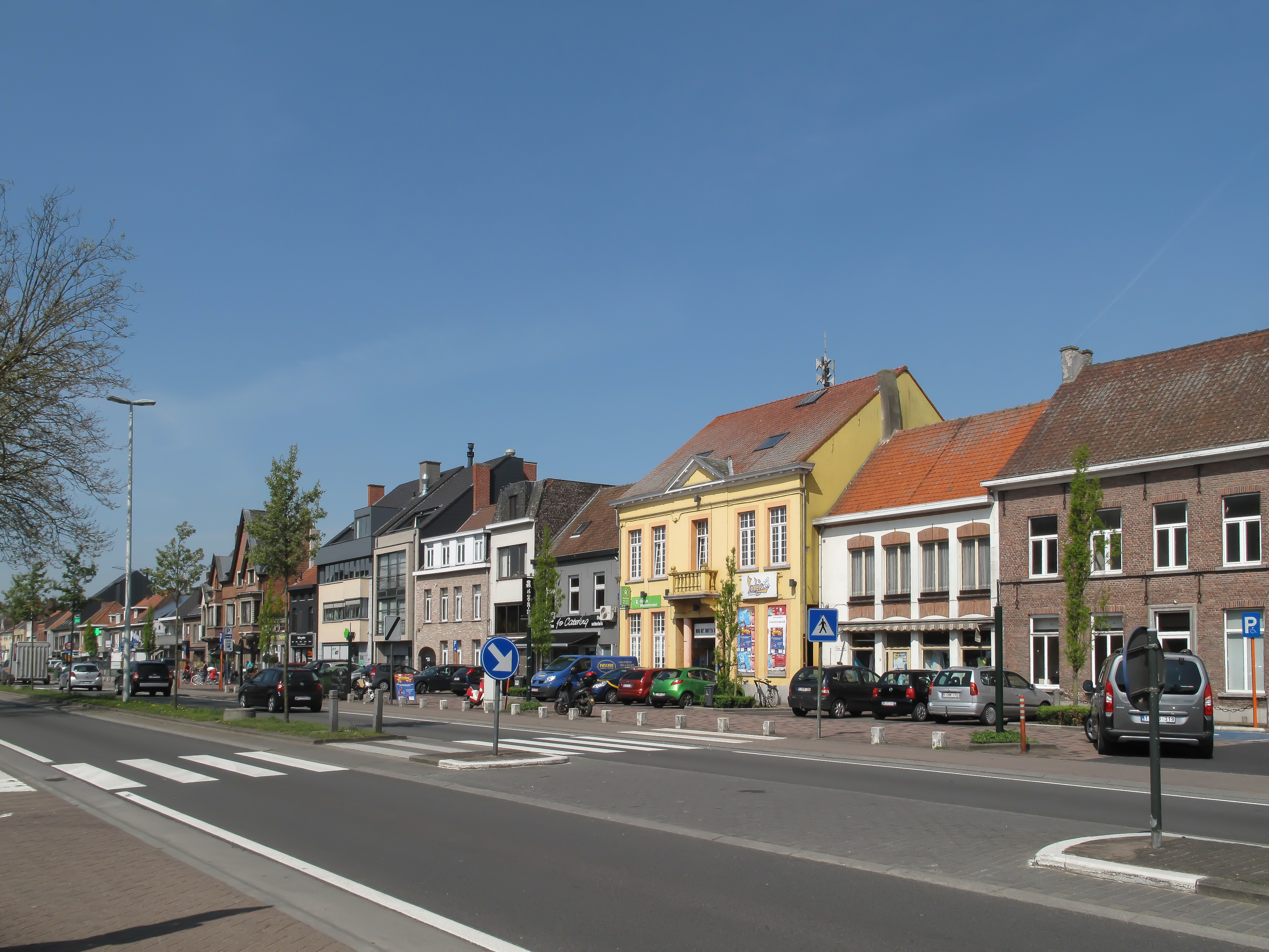 Lochristi view to a street: Dorp-West